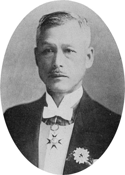 Gentarō Tanahashi, former director of the Tokyo Science Museum.